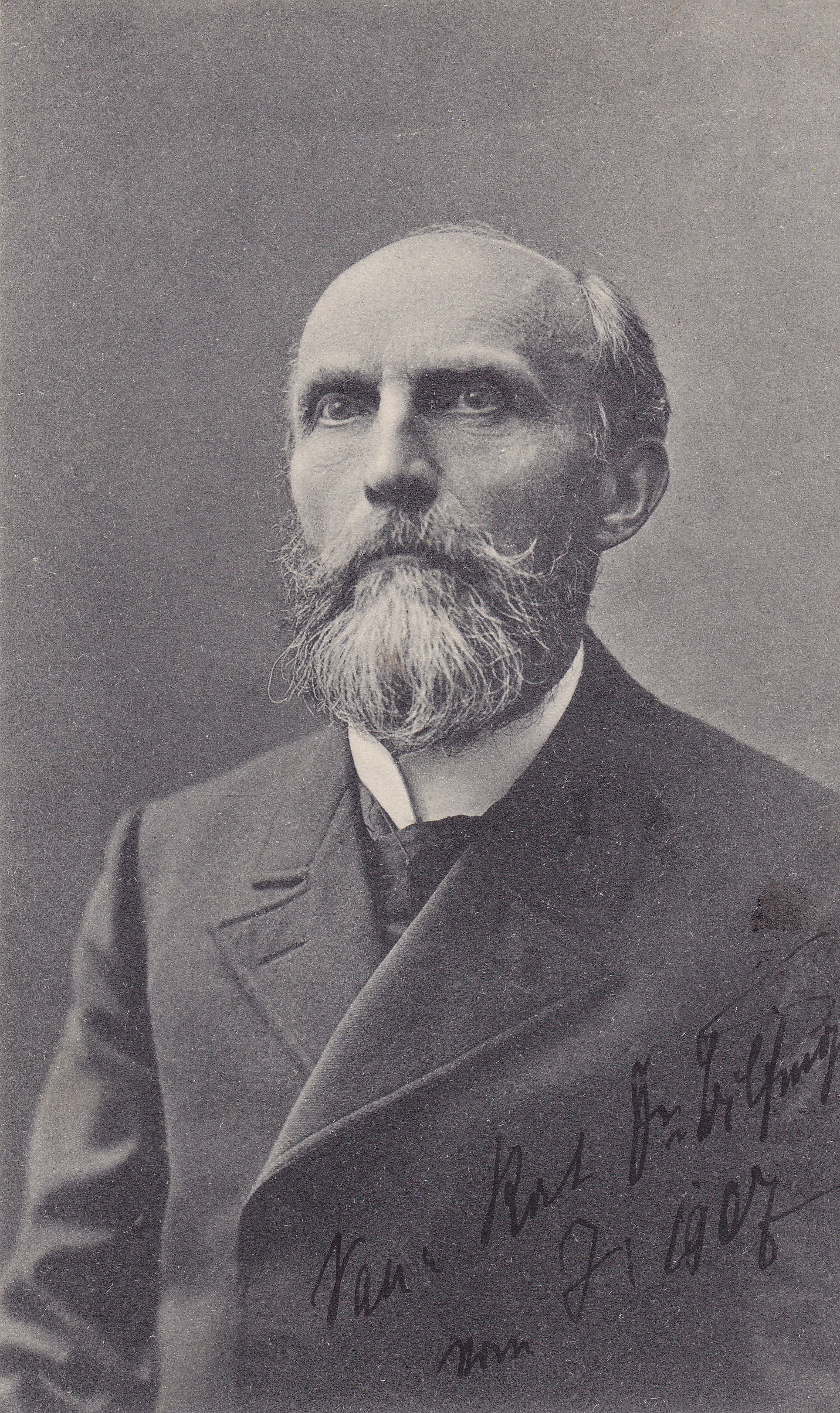 Postcard sent as notice of death of Eugen Bilfinger by his wife (original photo abt 1907 by Hofphotgoraph Heinemann, Eisenach)